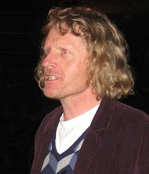 Alan Yentob and Grayson Perry at Private View of Gilbert & George Retrospective, Tate Modern